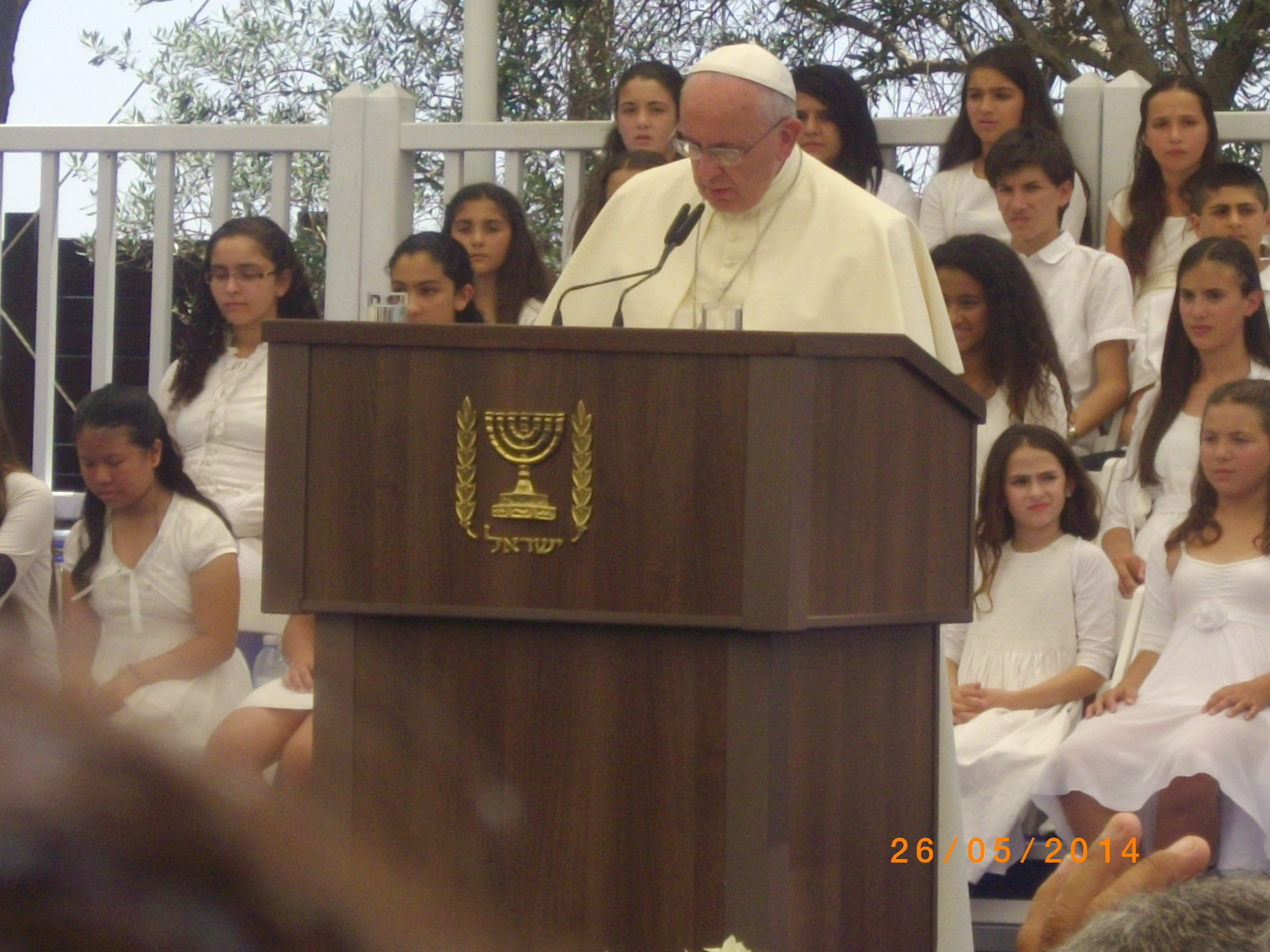 Pope Franciscus in Israel.